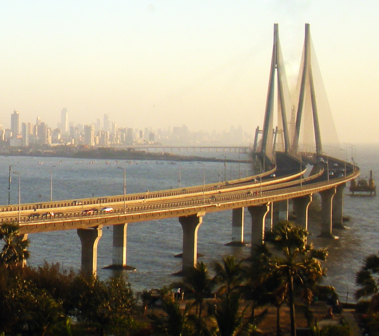 Worli Skyline(Mumbai) with Bandra Worli Sea Link View